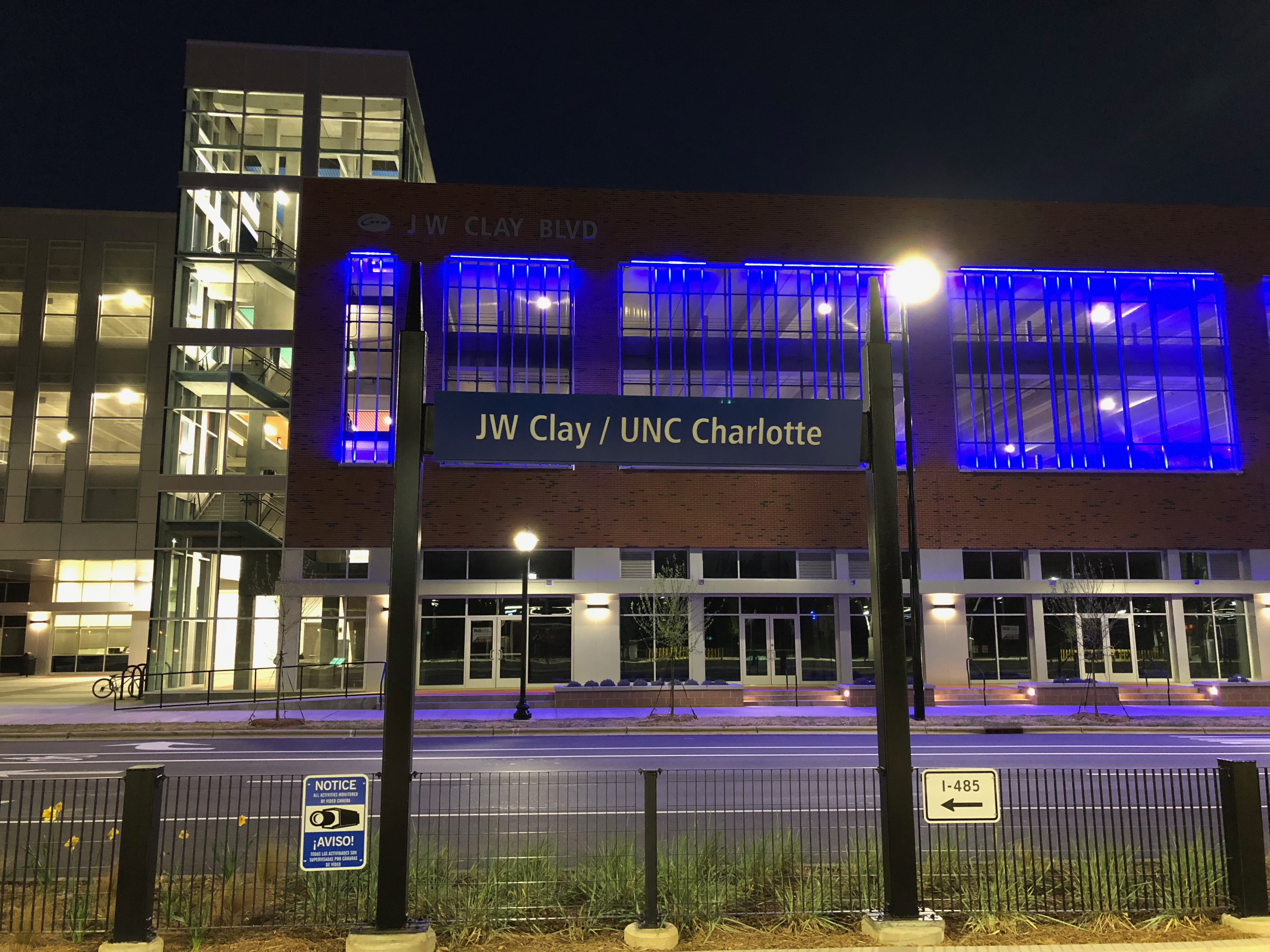 JW Clay/UNCC Lynx Station